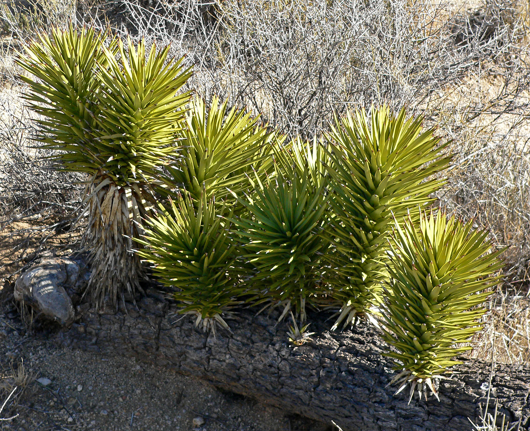 Yucca brevifolia resprouting from a fallen trunk, Teutonia Peak trail, Cima Dome, Mojave National Preserve, southeastern California